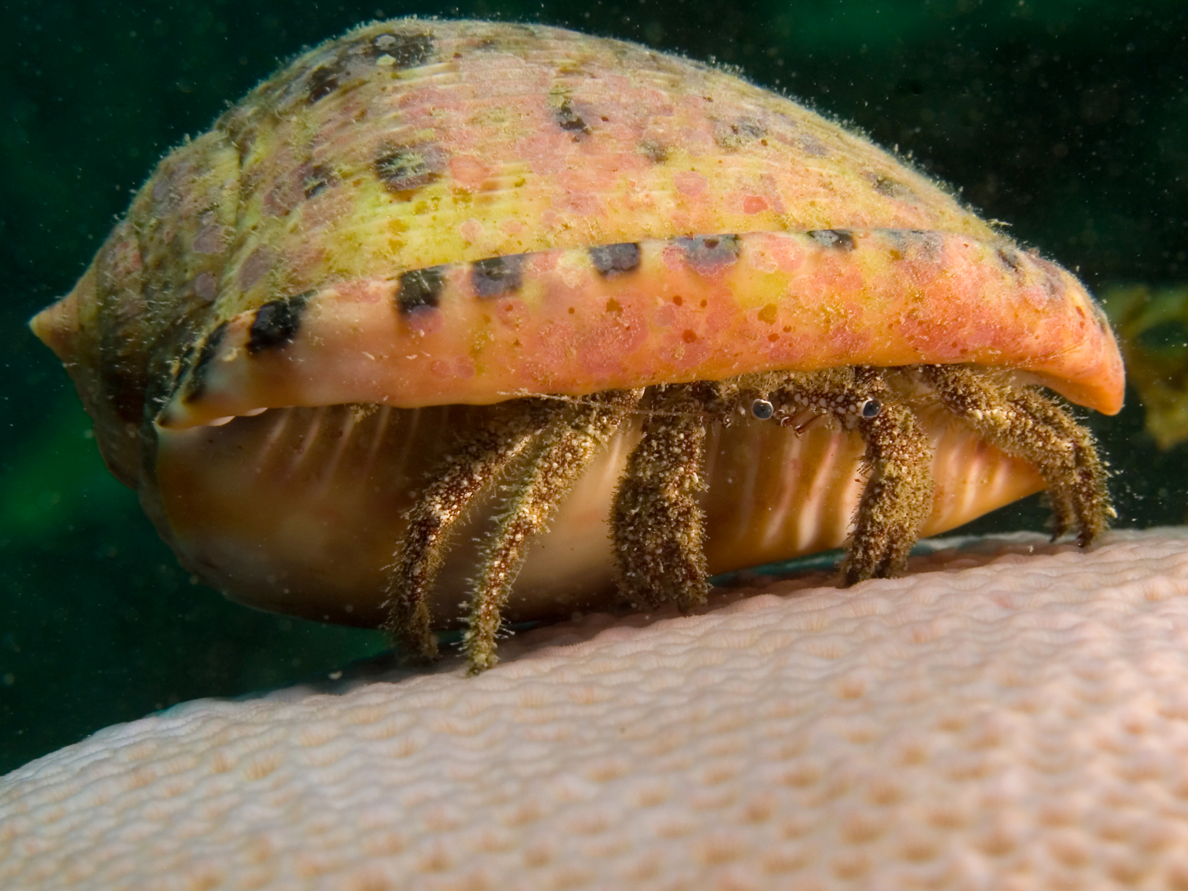 Paguristes punticeps (White Speckled Hermit Crab)